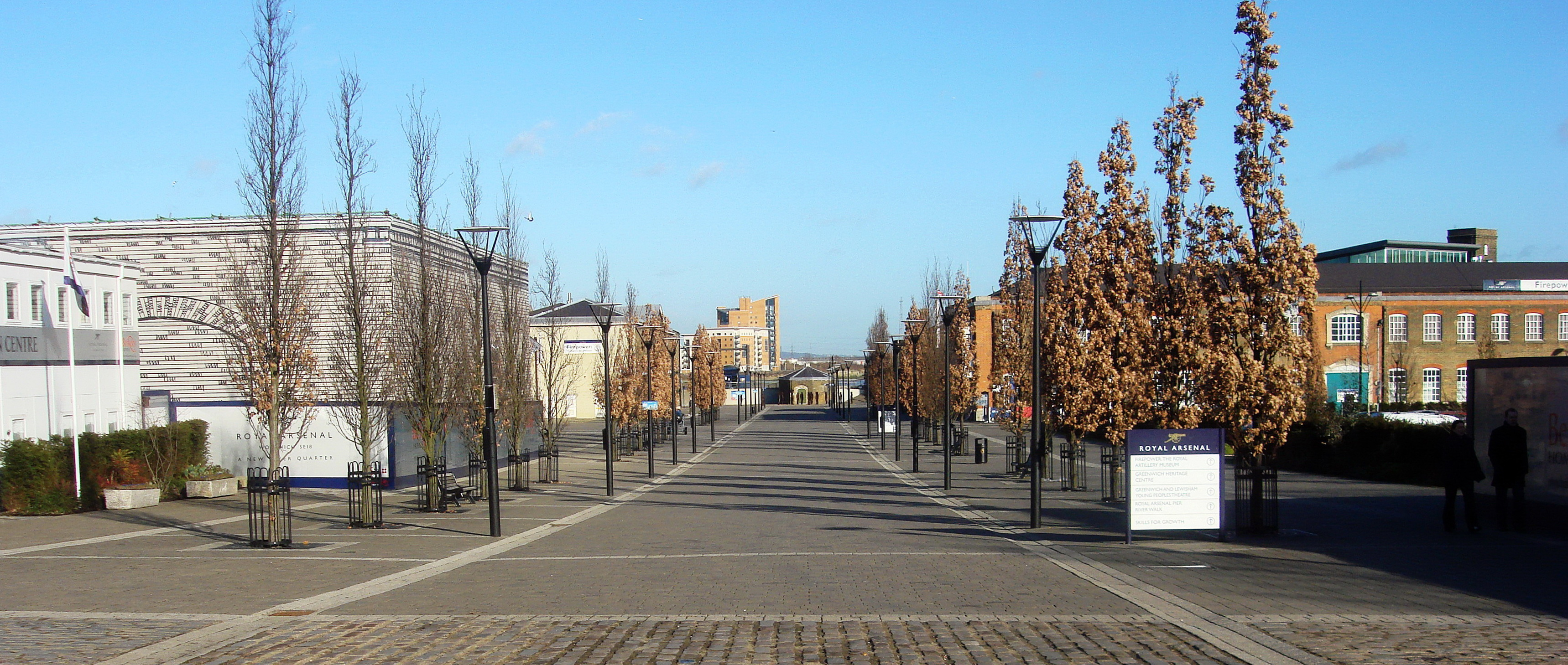 Royal Arsenal, Woolwich